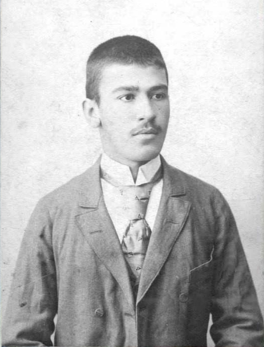 Famous Bulgarian actor and director Sava Ognianov in his teenage years.